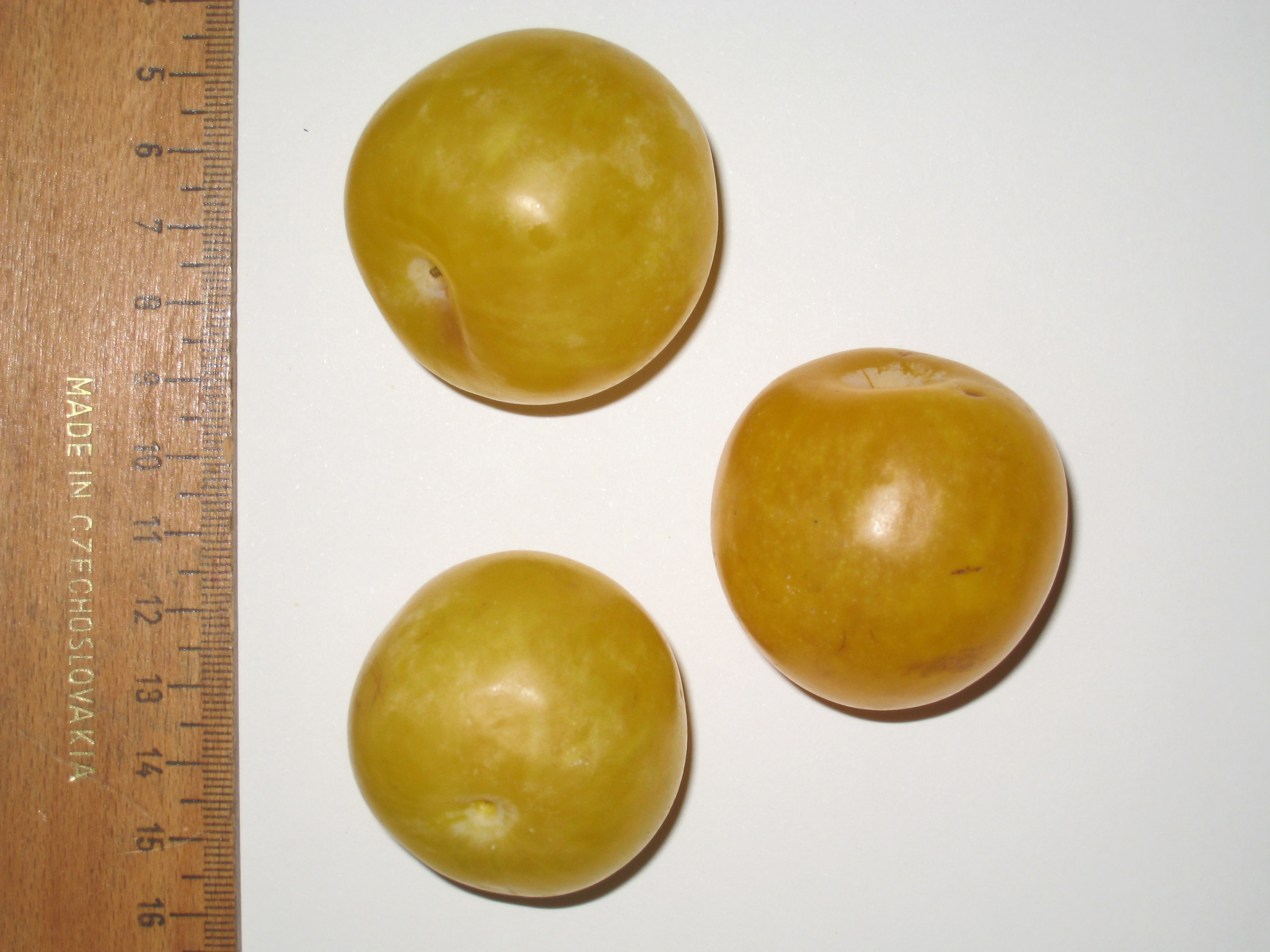 "Golden drop" Plums (Iranian fruit).